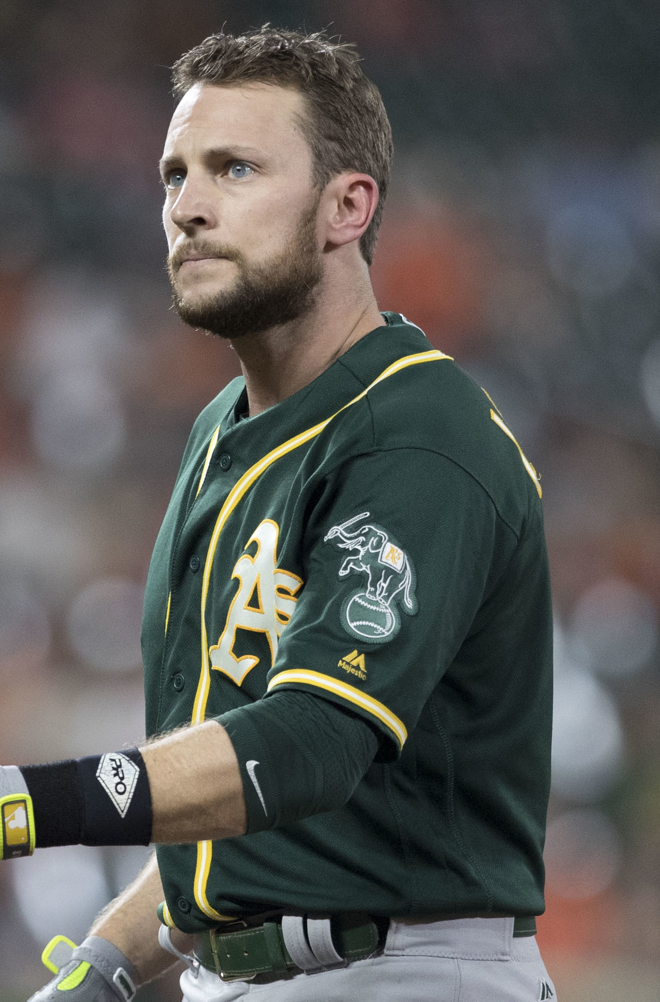 A's at Orioles 8/22/17